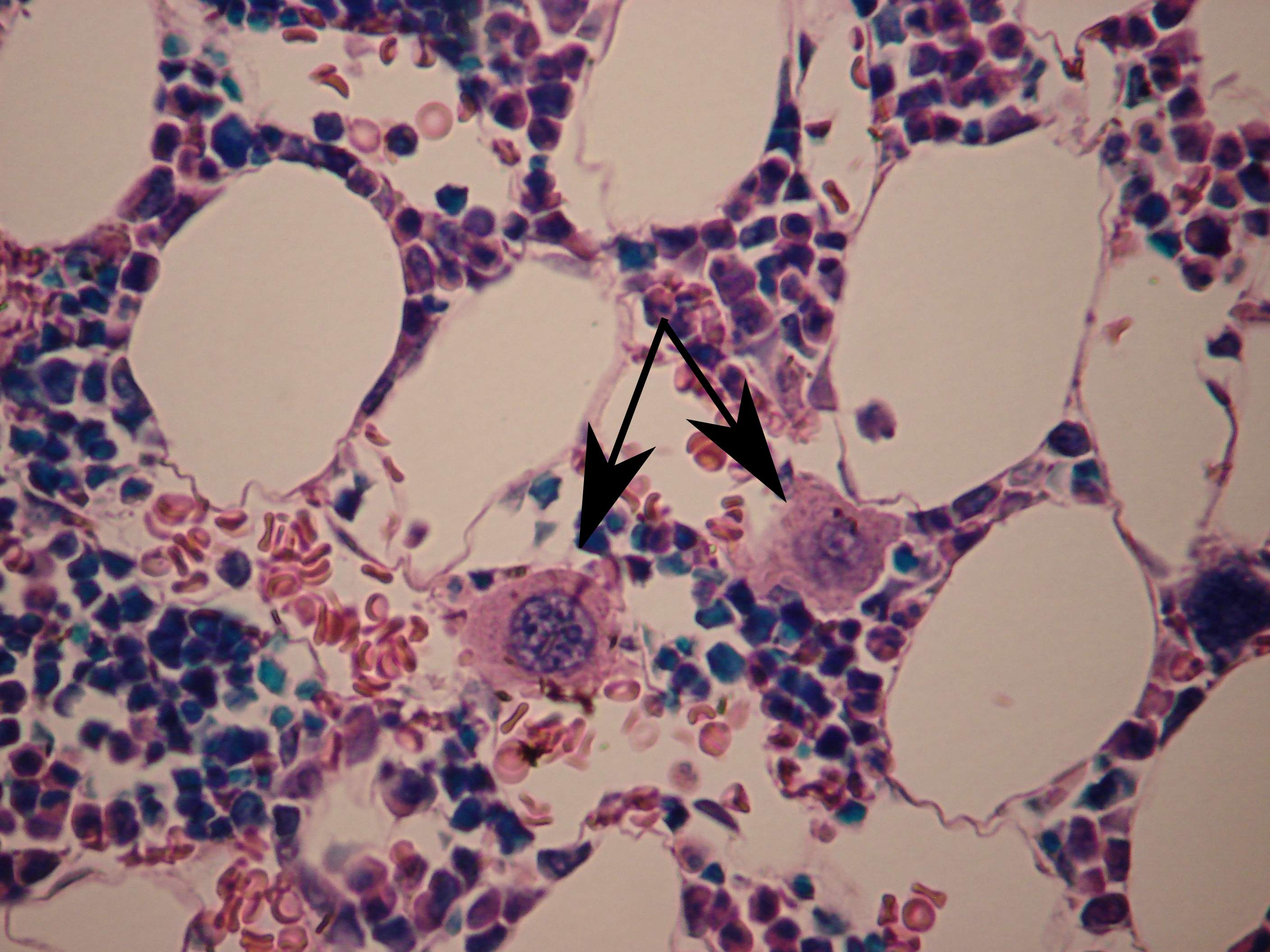 Two megakaryoctes are visible in this slide of bone marrow